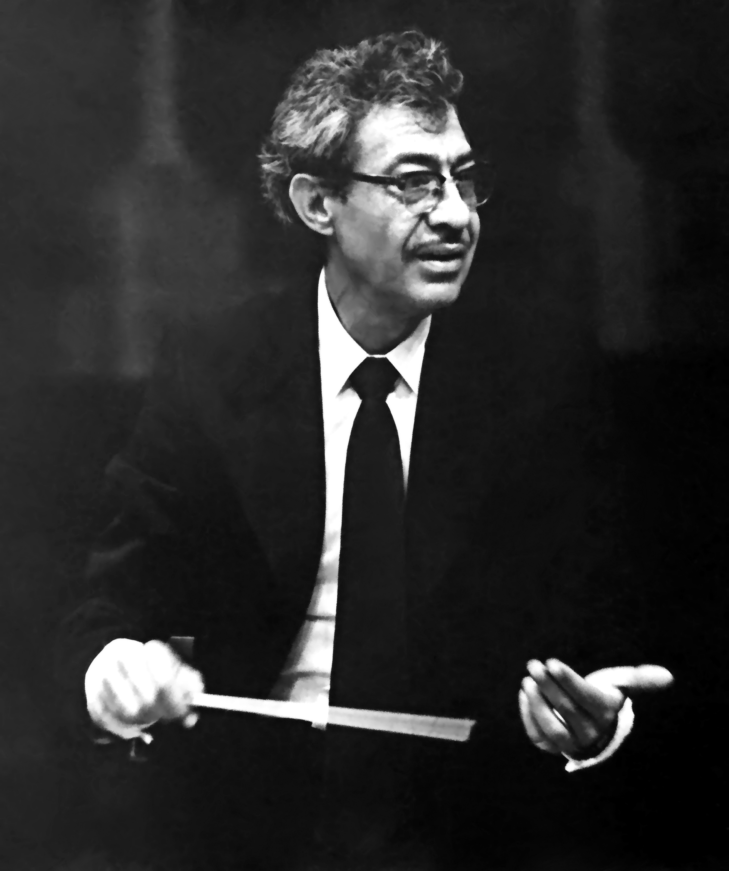 Luis Ximénez Caballero - Orchestra conductor (1974)